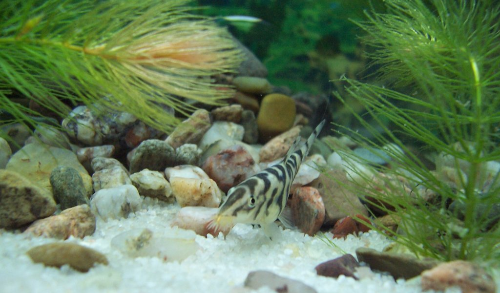 Yoyo loach.